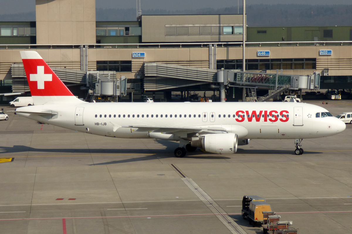 Swiss, HB-IJB, Airbus A320-214